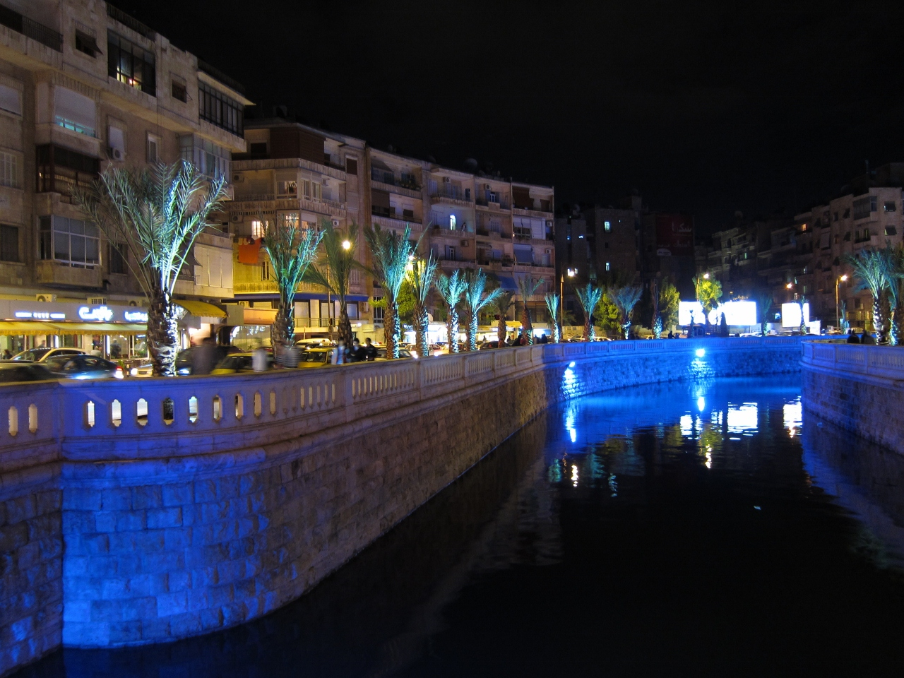 Queik River in Aleppo by night